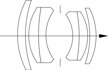 Double-Gauss type photographic optical design like Carl-Zeiss Planar.